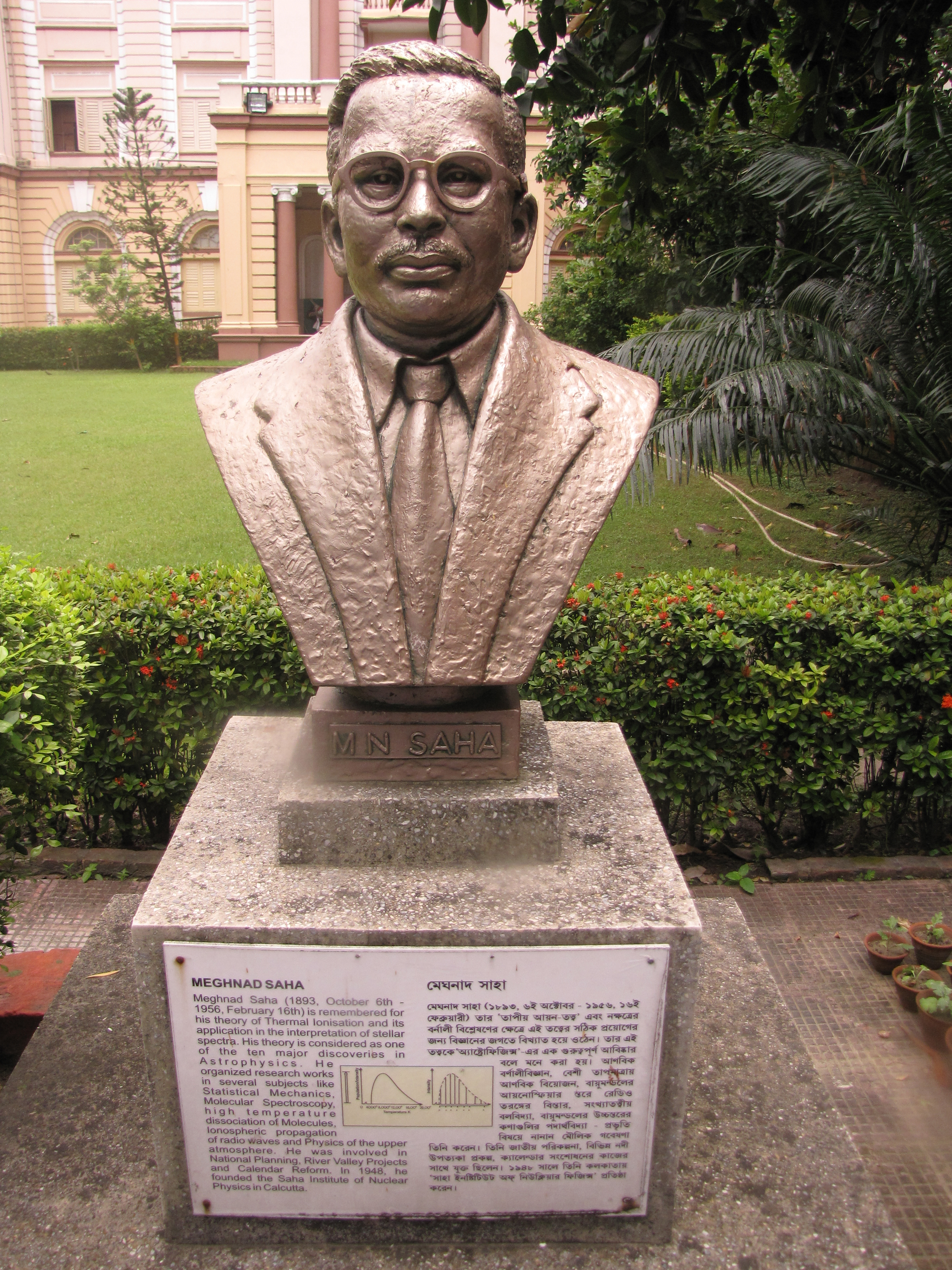 Bust of Meghnad Saha, Indian astro-physicist in the garden of Birla Industrial & Technological Museum.